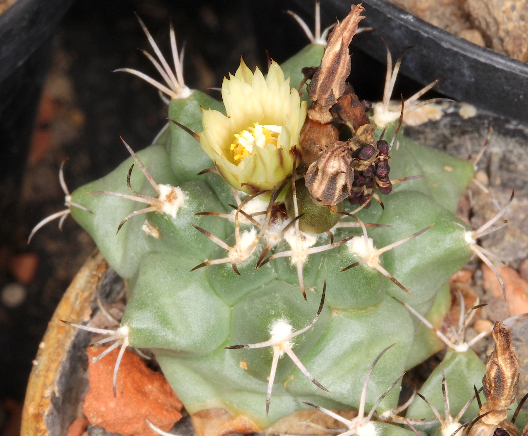 Turbinicarpus swobodae